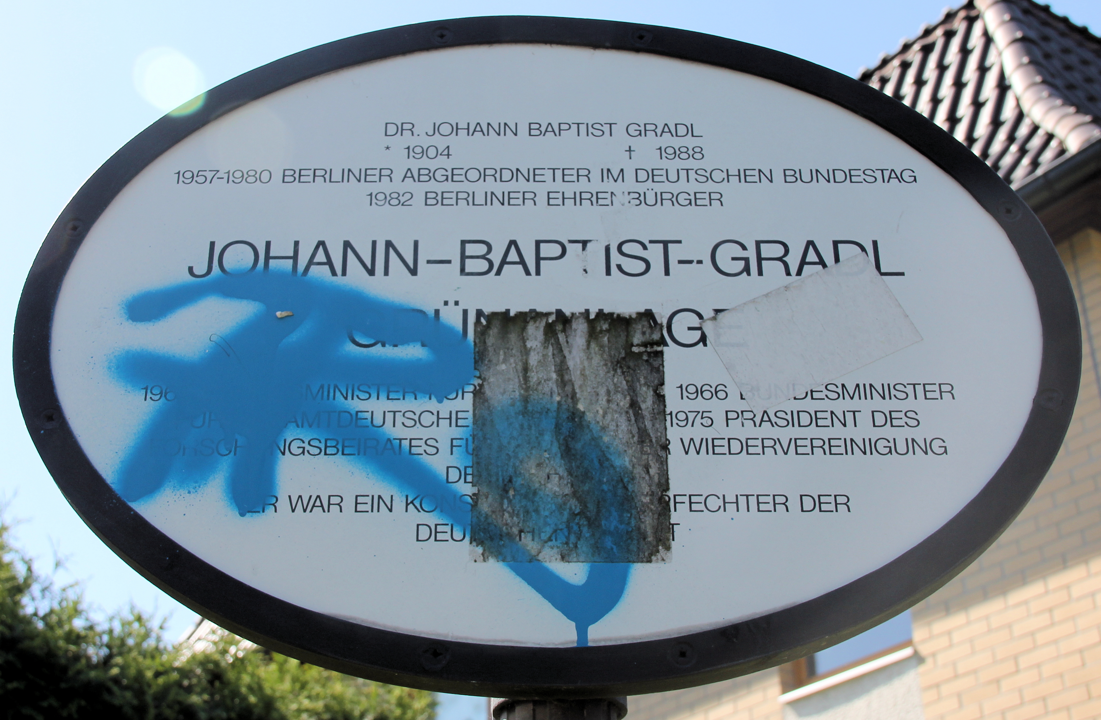 Memorial plaque, Johann Baptist Gradl, Blanckertzweg 1, Berlin-Lichterfelde, Germany Koordinate:52°25′7″N 13°19′5″E / 52.41861°N 13.31806°E